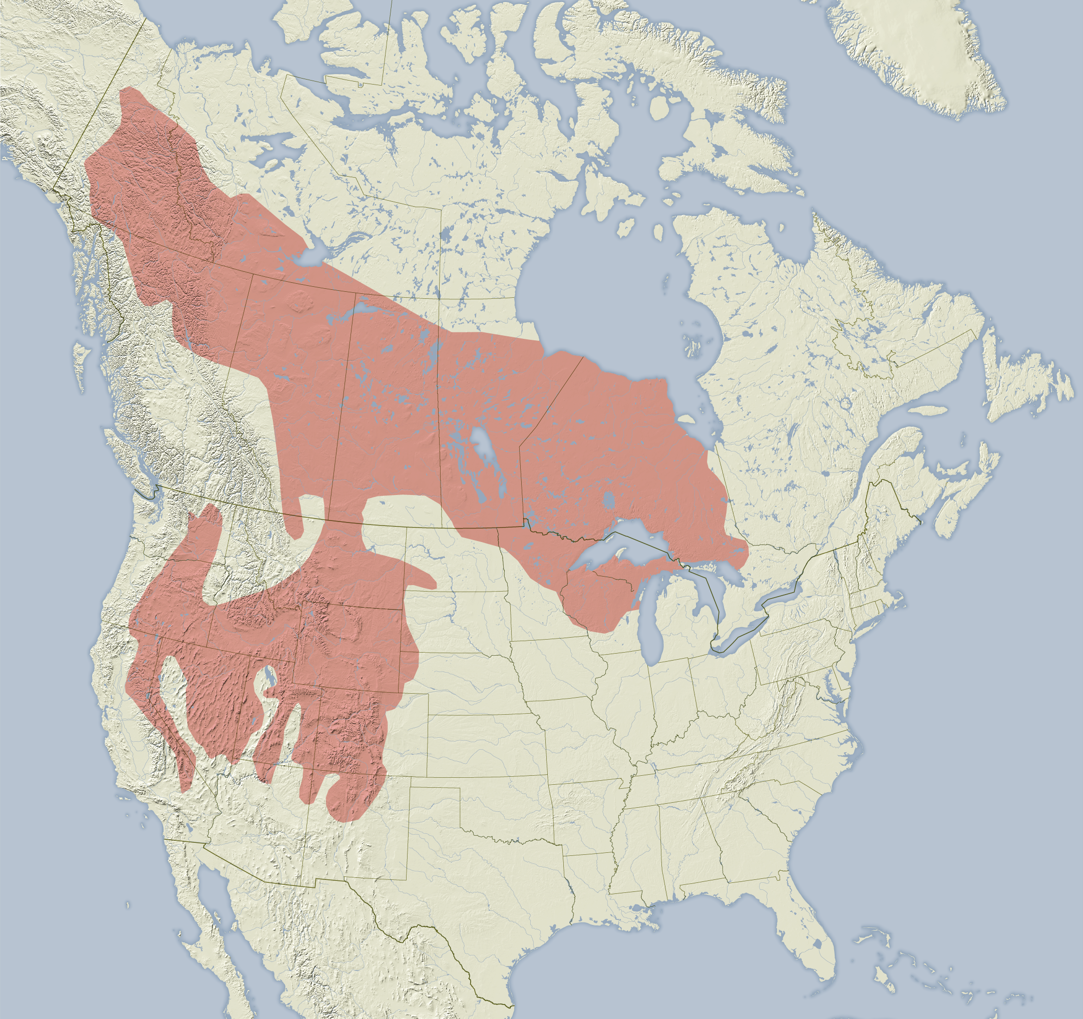 Distribution map of the least chipmunk